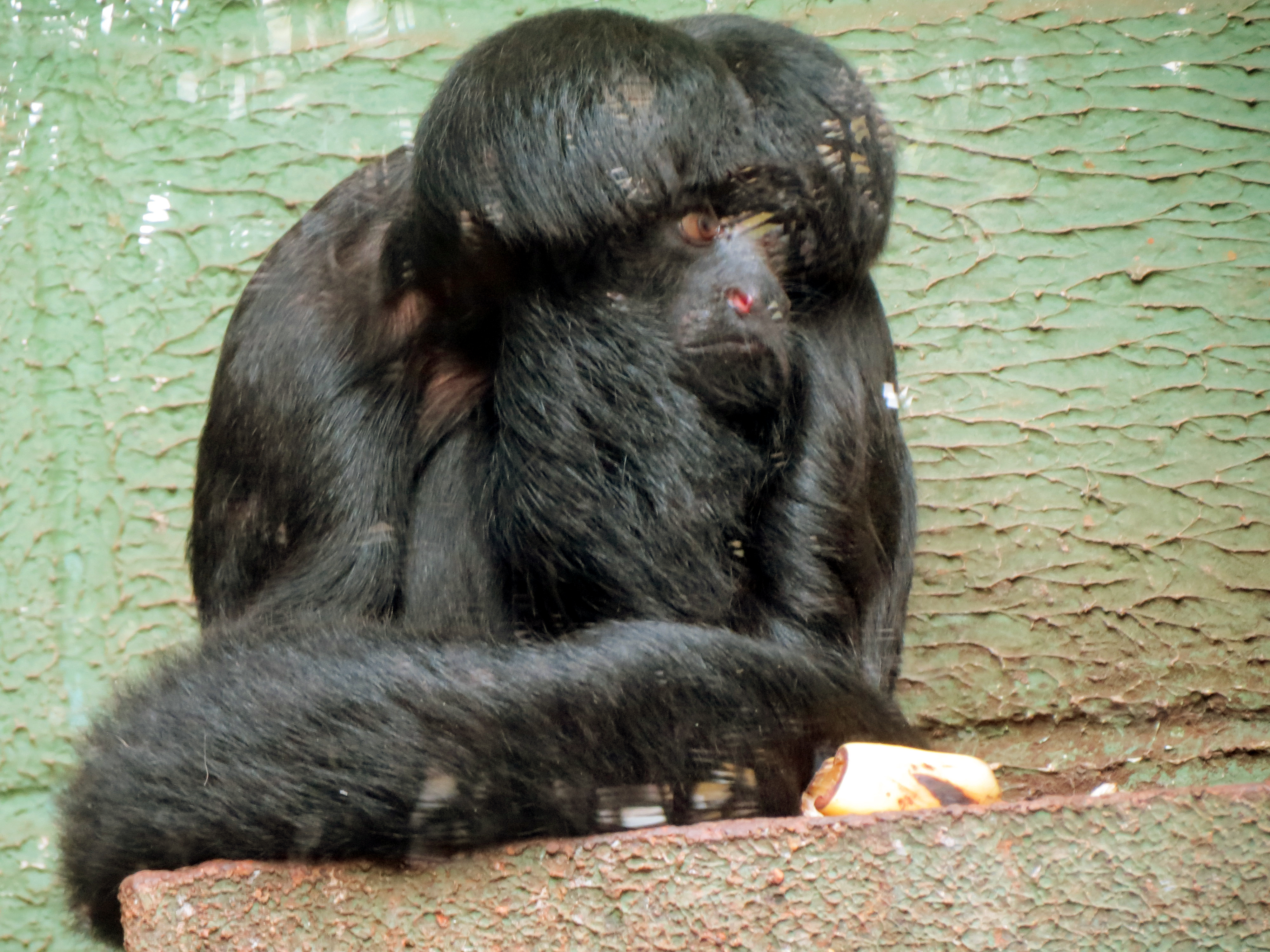 Black bearded saki (Chiropotes satanas) in Sorocaba Zoo, Brazil.